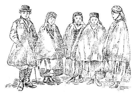 Kurpie flolklore: clothes